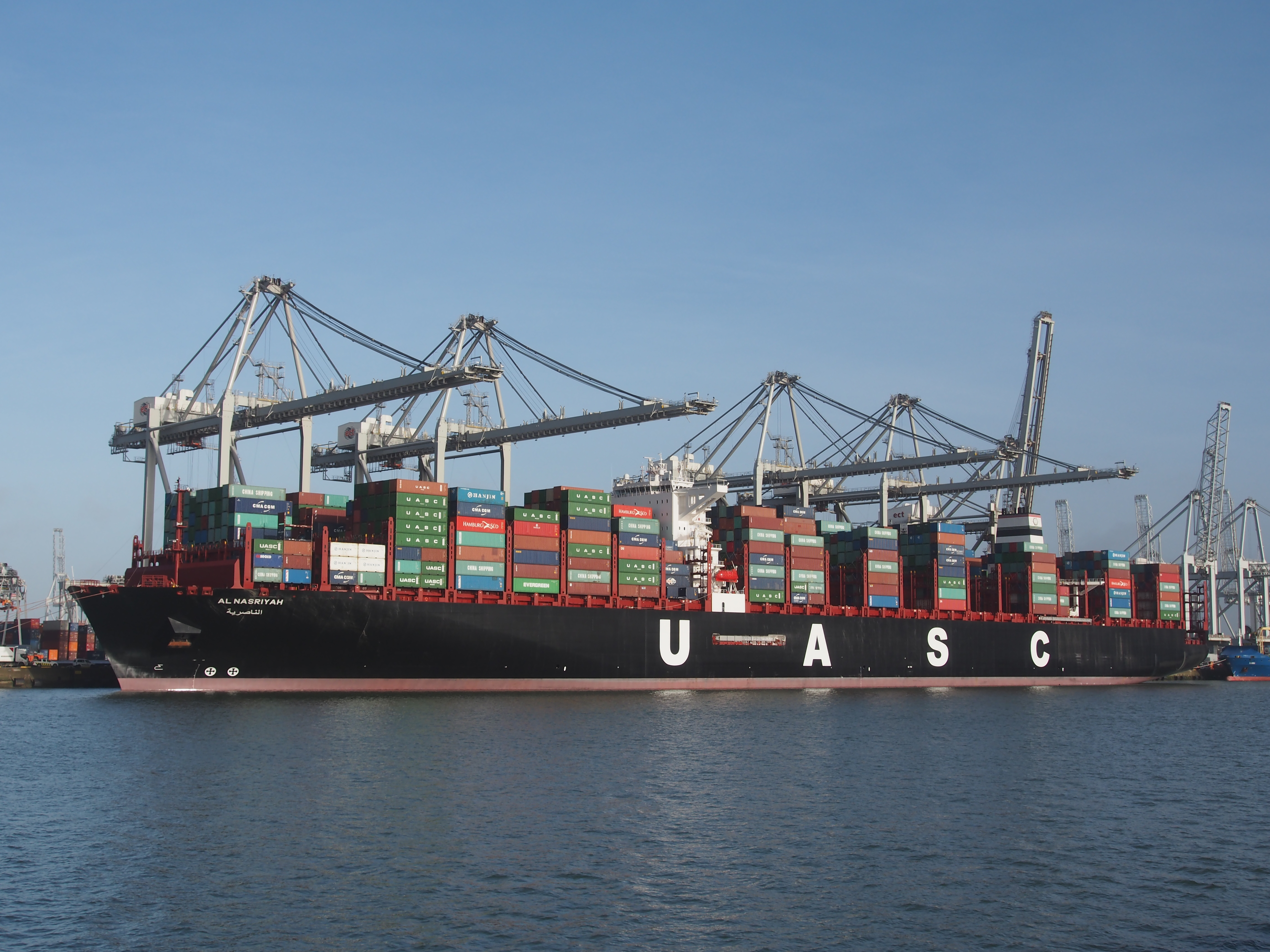 Al Nasriyah (ship, 2015) IMO 9708849 Port of Rotterdam.